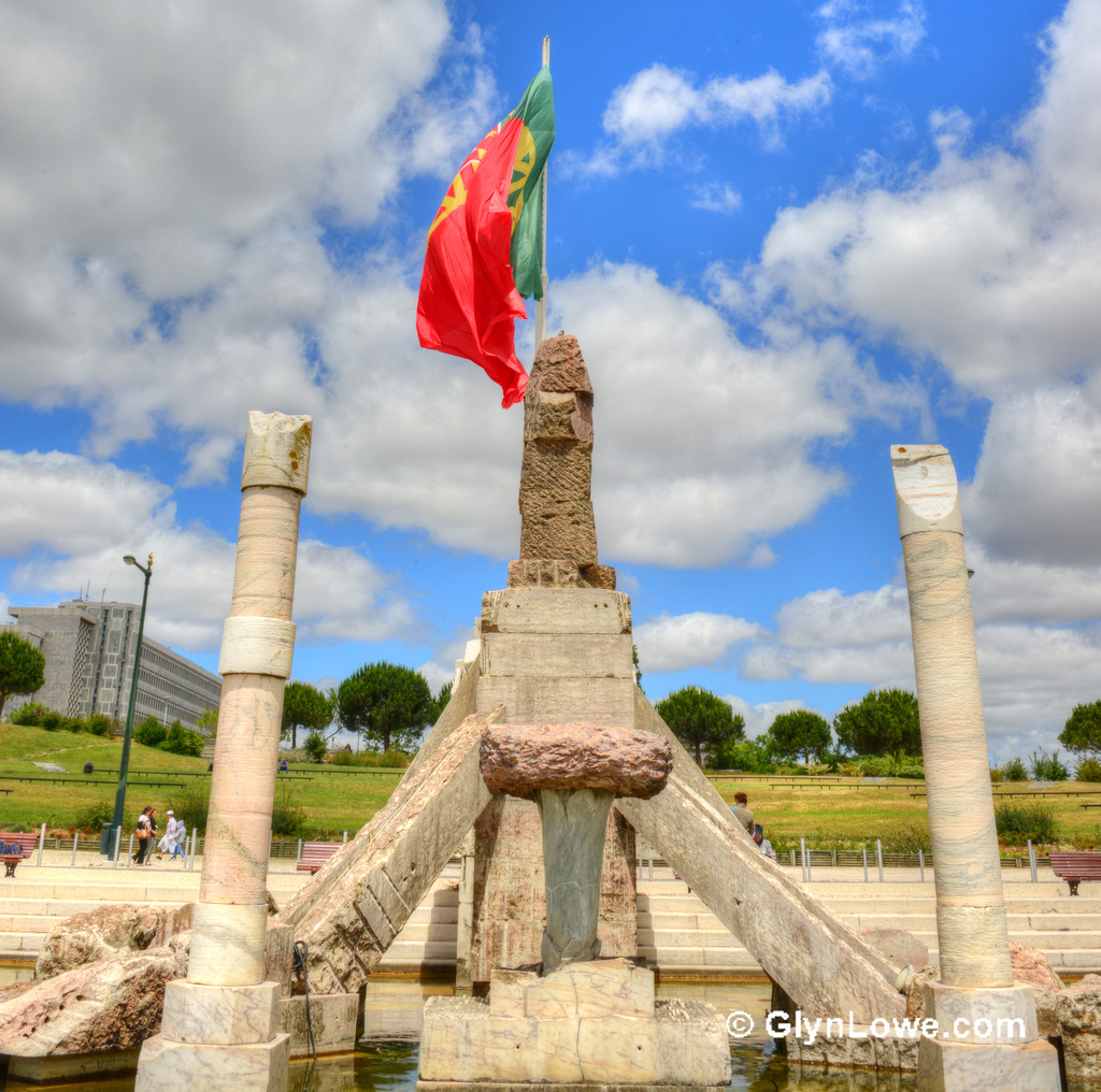 The Eduardo VII Park (Portuguese: Parque Eduardo VII) is a public park in Lisbon, Portugal. The park occupies an area of 26 hectares to the north of the Avenida da Liberdade and the Marquess of Pombal Square, in the centre of the city. Its name pays homage to Edward VII of the United Kingdom who visited Portugal in 1902 to strengthen the relations between the two countries. The Lisbon Book Fair is held there annually. More Photos At